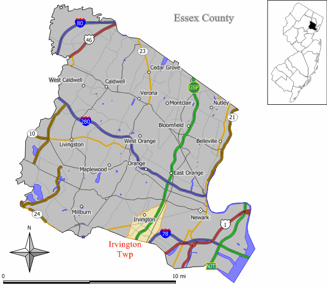 Source: Jim Irwin Original work by Jim Irwin, December 2005.